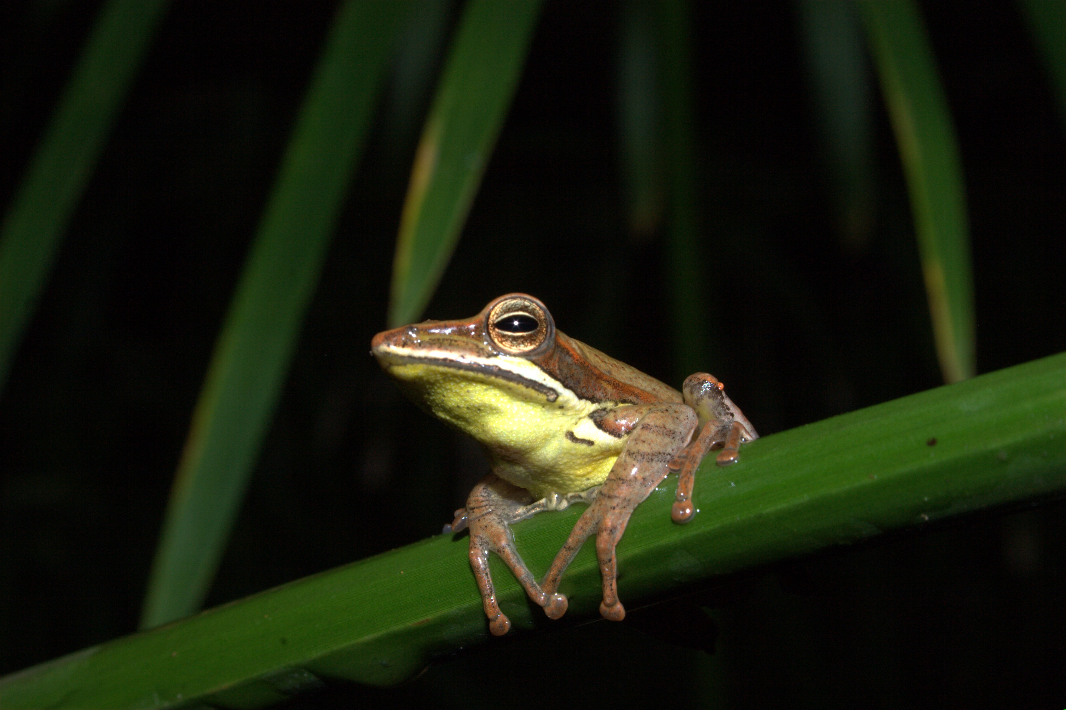 Taruga eques at Haggala2